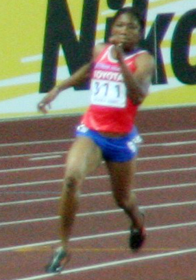 World Athletics Championships 2007 in Osaka - Scene from the women*s 200 metres final